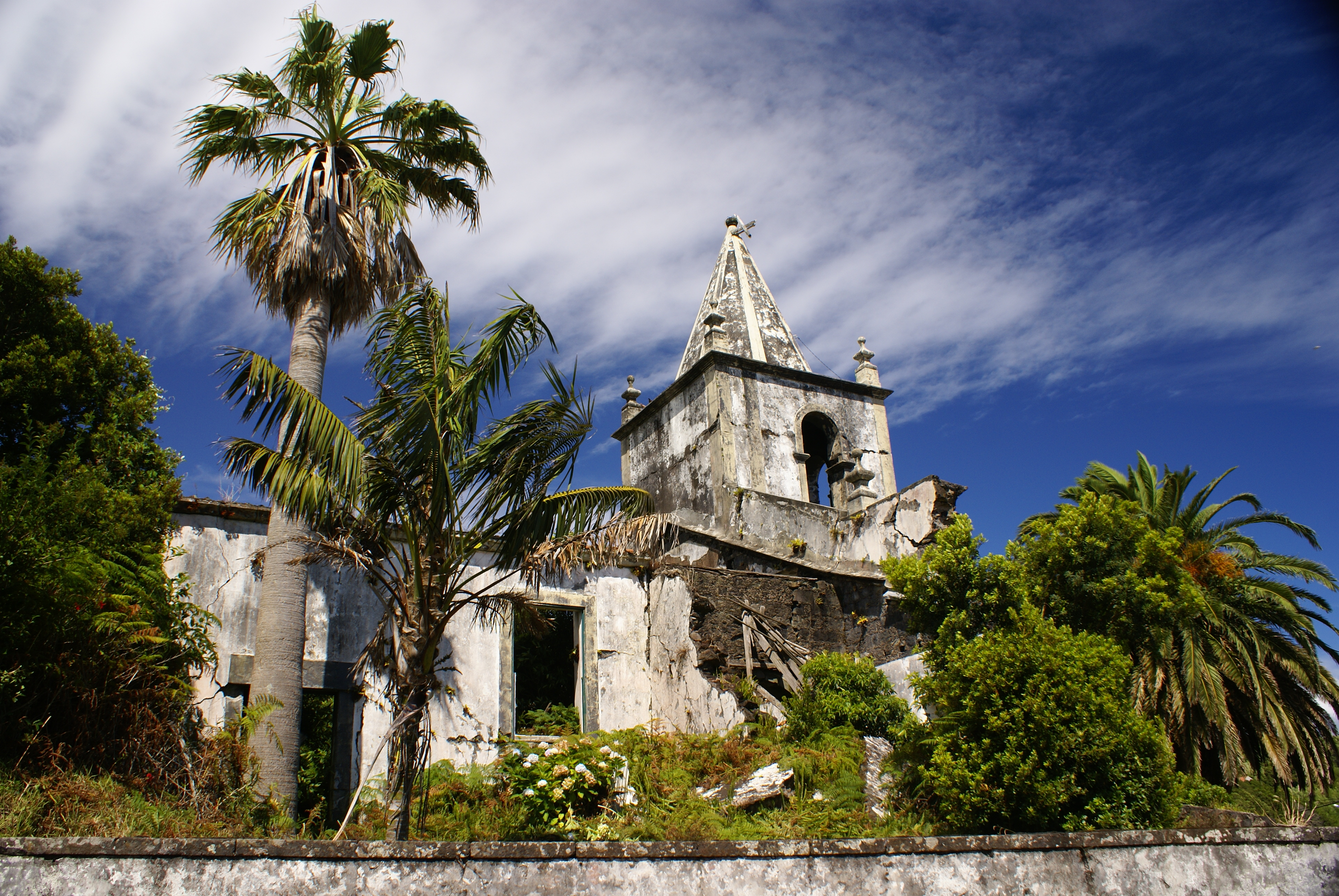 Igreja de Nossa Senhora da Ajuda, aspectos 1, Pedro Miguel, destruida pelo terramato de 1998 depois por um incêndio, concelho da Horta, ilha do Faial, Açores, Portugal